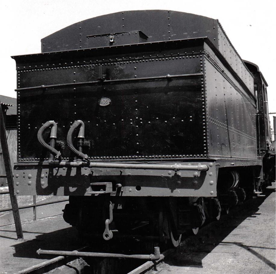 SAR Type MP1 tender no. 805 of Class 16B 4-6-2 Pacific no. 805